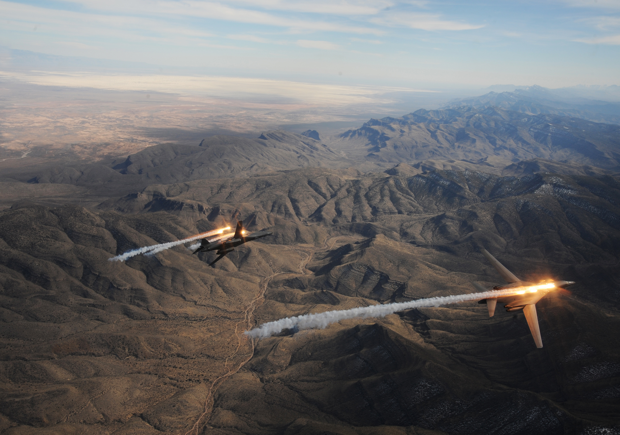 A two ship of B-1B Lancers assigned to the 28th Bomb Squadron, Dyess Air Force Base, Texas, release chaff and flares while maneuvering over New Mexico during a training mission on Feb. 24, 2010. Dyess will celebrate the 25th anniversary of the first B-1B bomber arriving at the base with the Dyess Big Country Airfest and Open House on May 1, 2010.